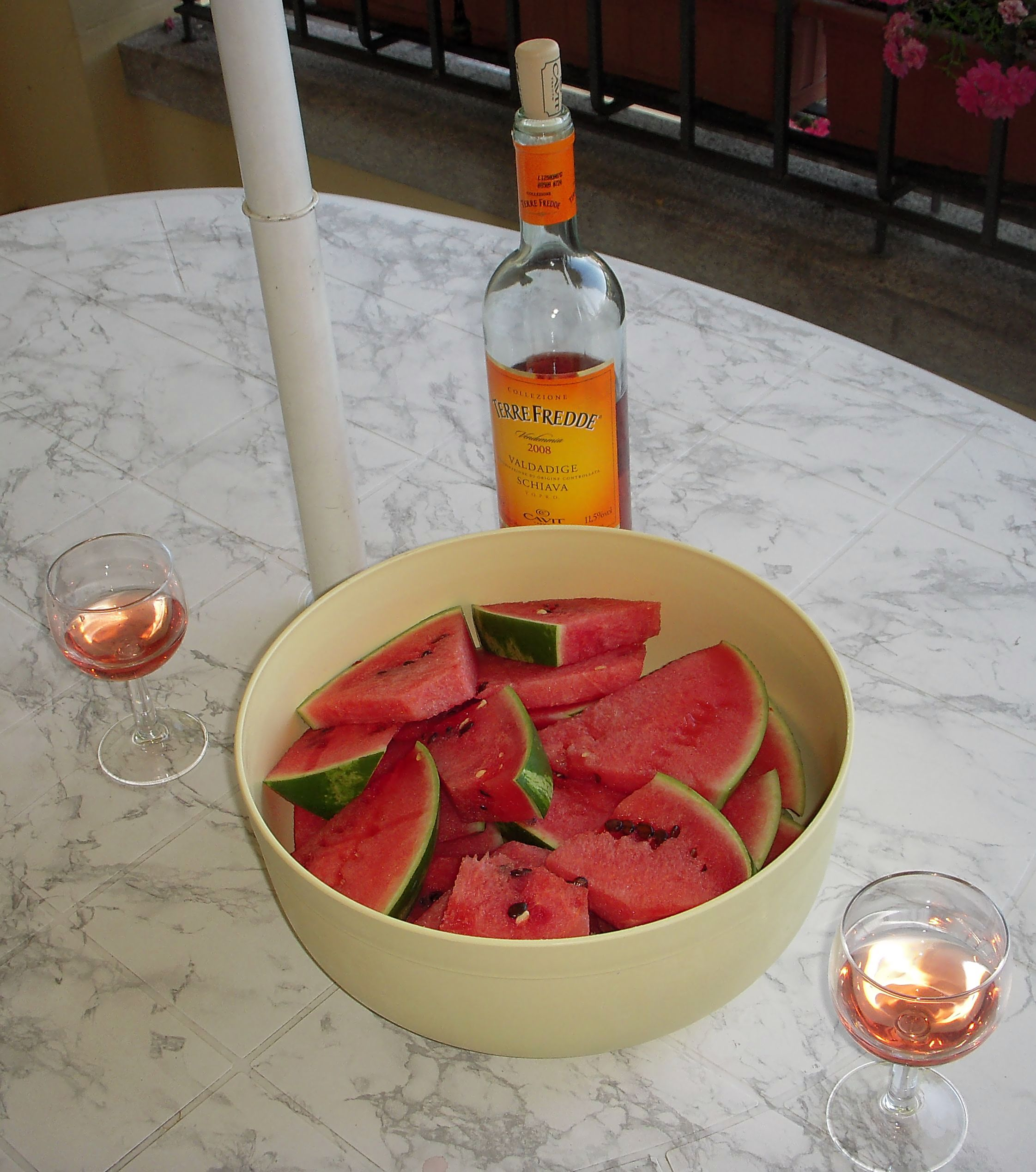 Sliced watermelon and a cooled Valdadige Rosé from Terre Fredde. July 2009.